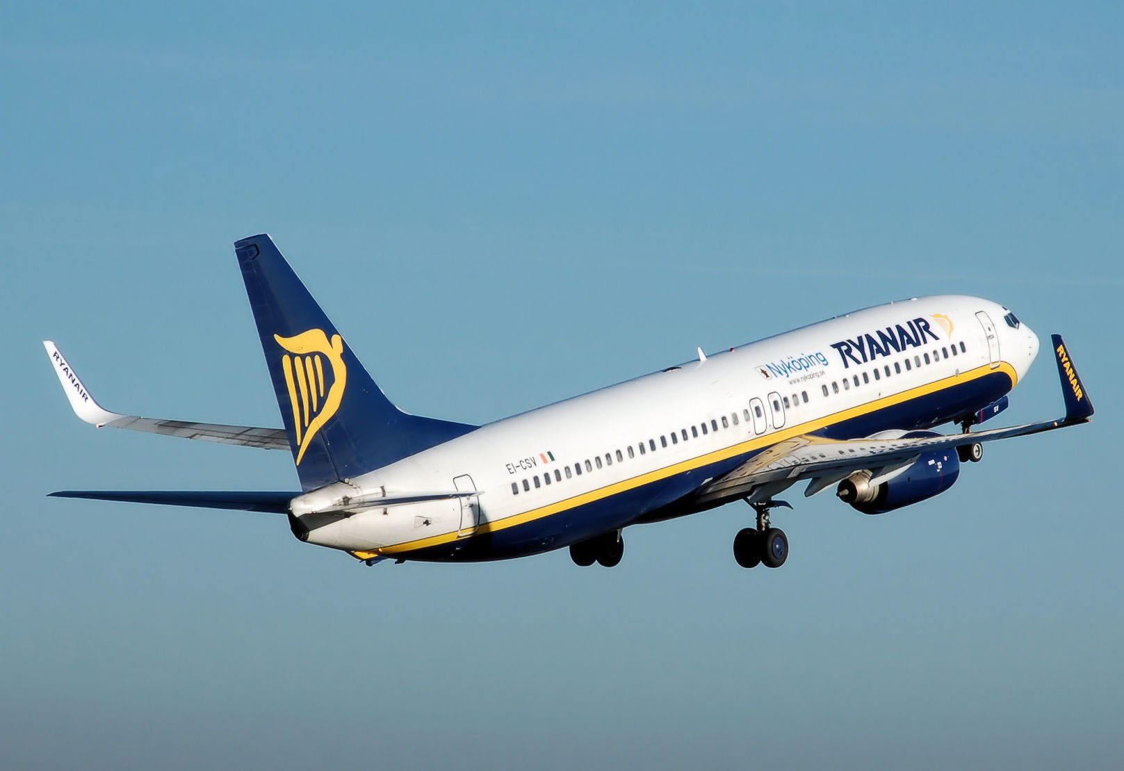 Ryanair Boeing 737-800 (EI-CSV), marked Nykoping, takes off from London Luton Airport, England.